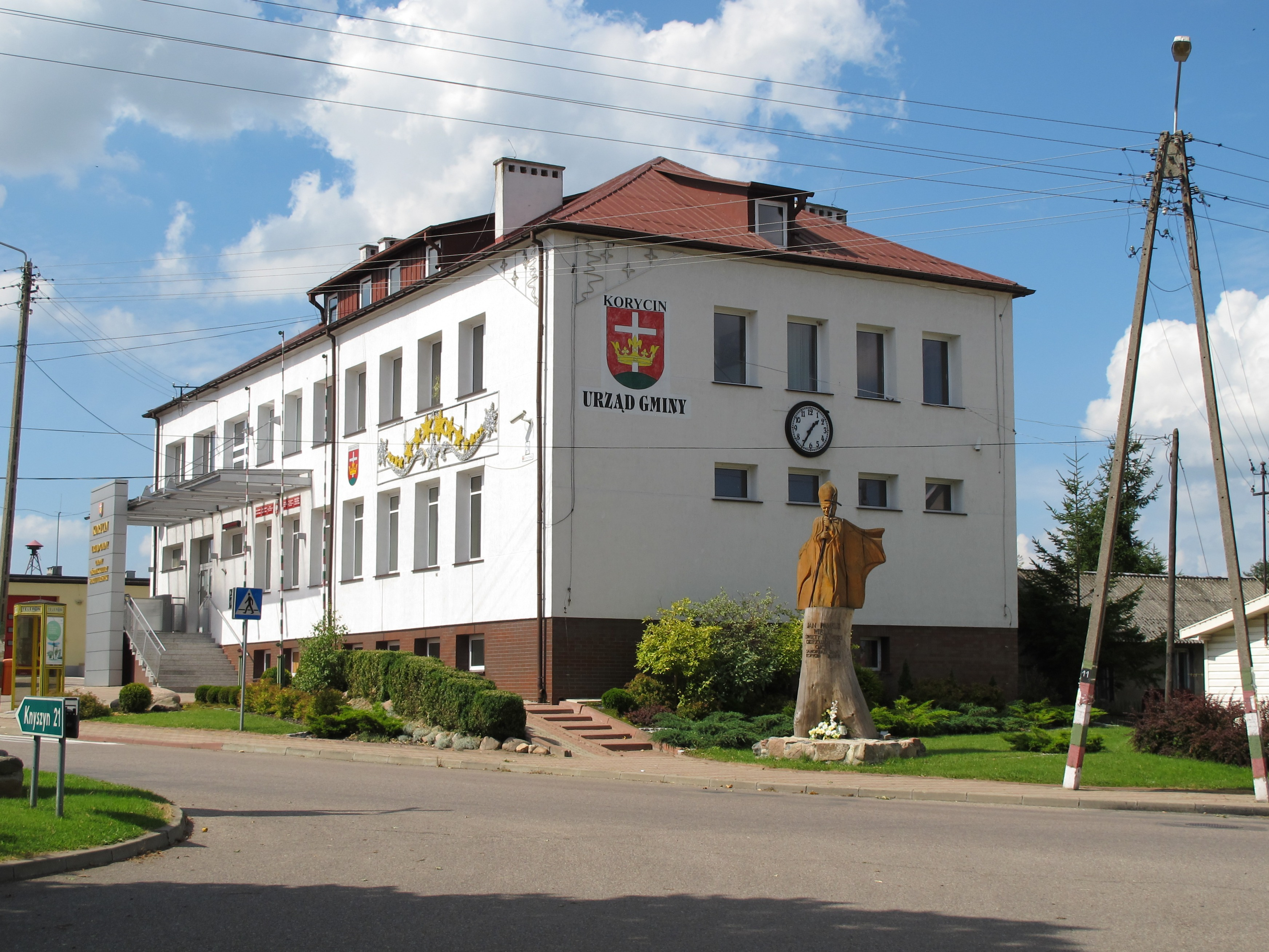 JPII monument by the gmina's office building in Korycin, gmina Korycin, podlaskie, Poland